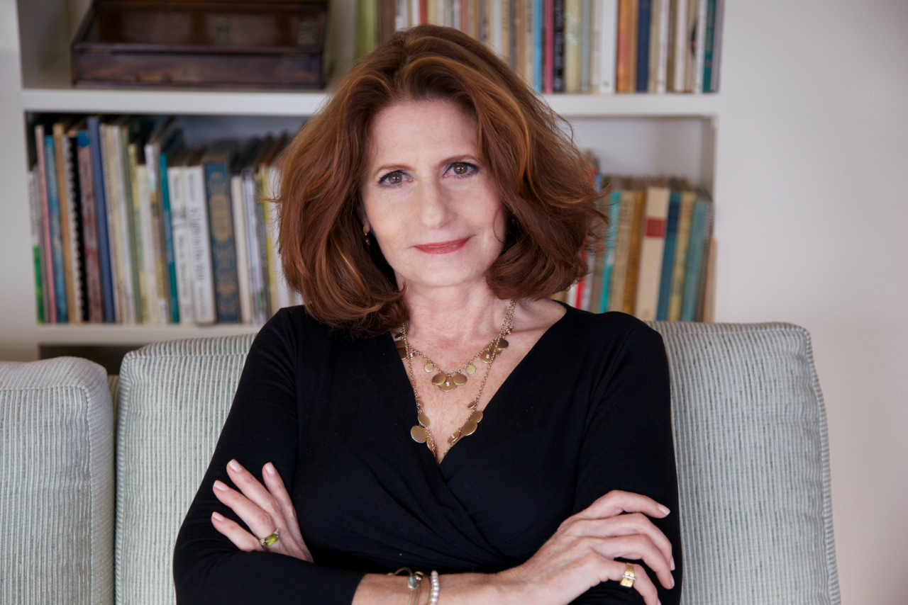 Photograph - Paulette Tavormina